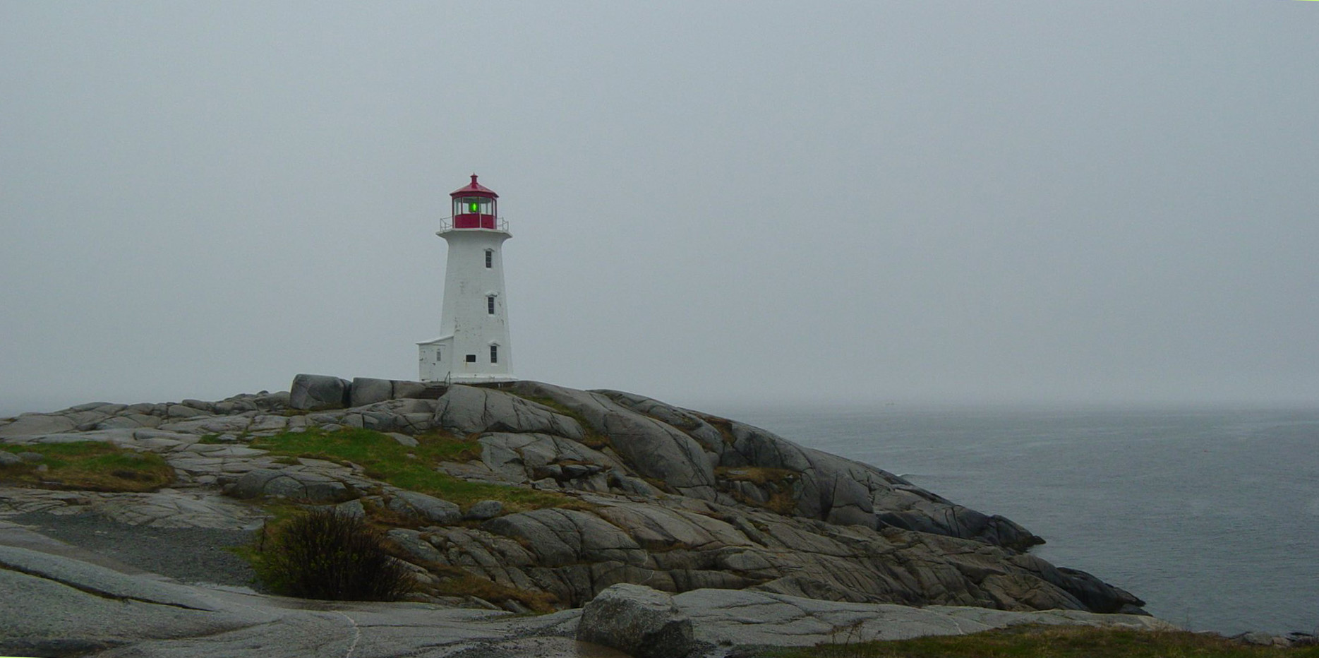 Peggy's Point Lighthouse on a foggy day; Peggy's Cove, Nova Scotia, Canada.